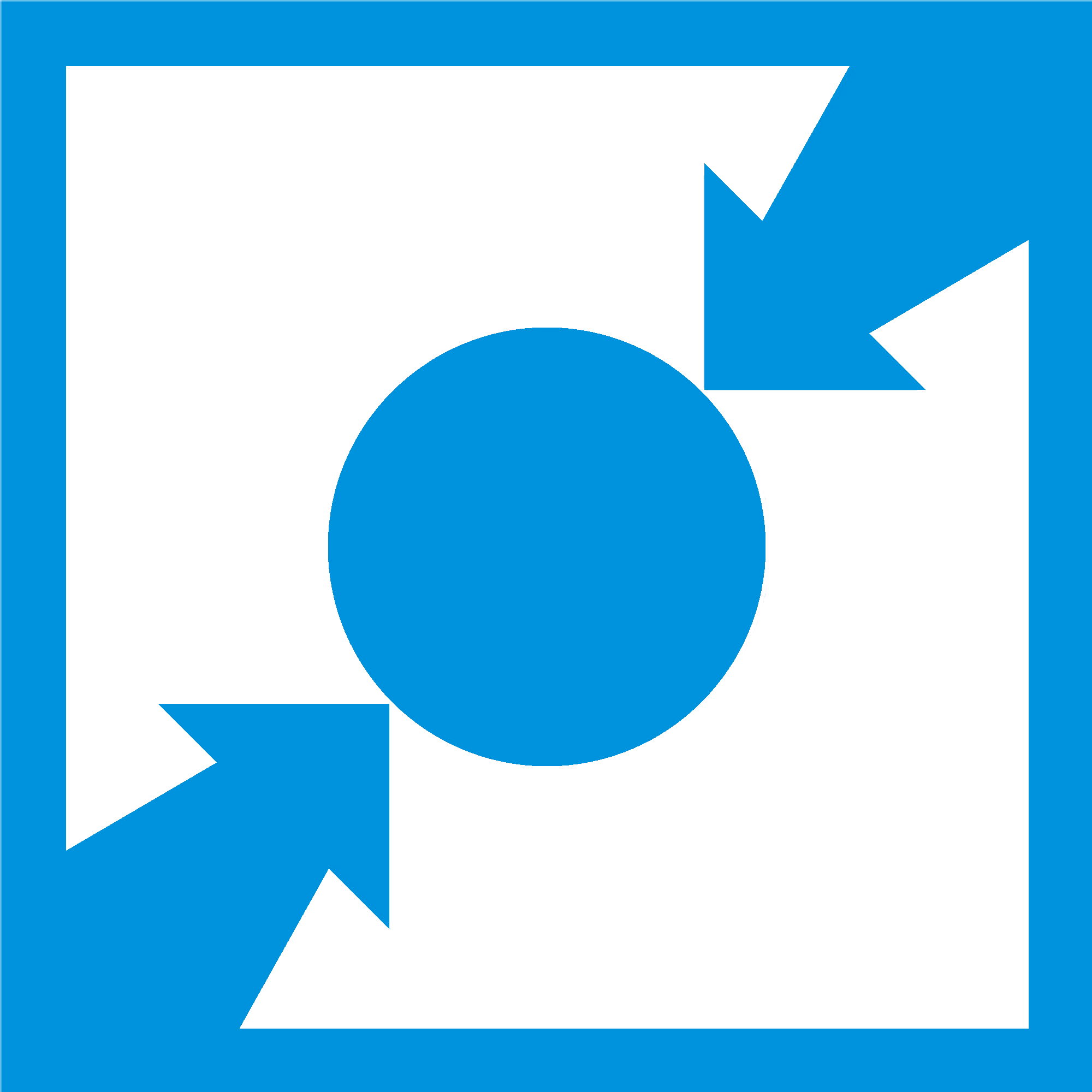 Adapted version of the logo of the CDS-PP party from Portugal